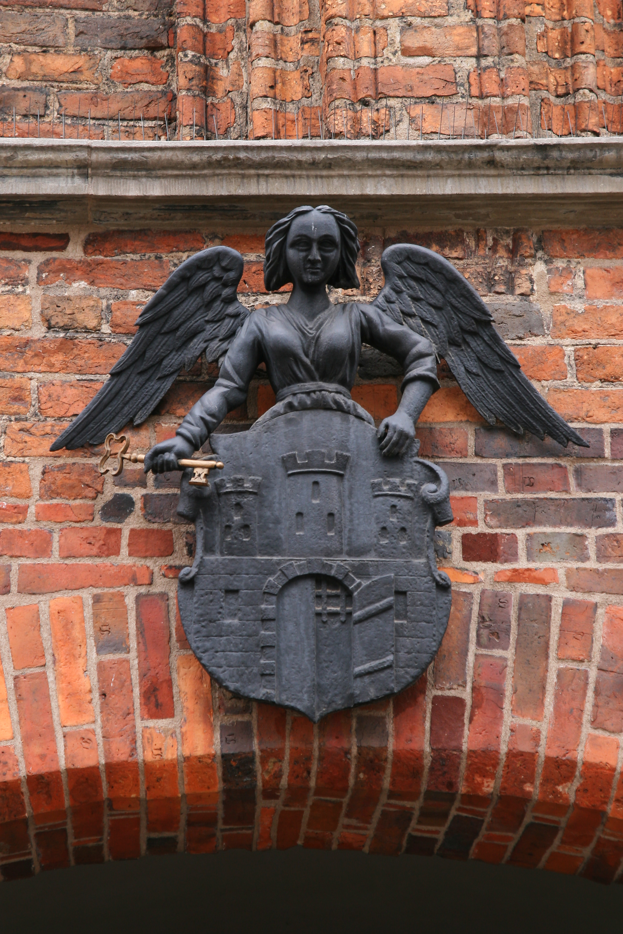 Angel with Coat of arms of Toruń.